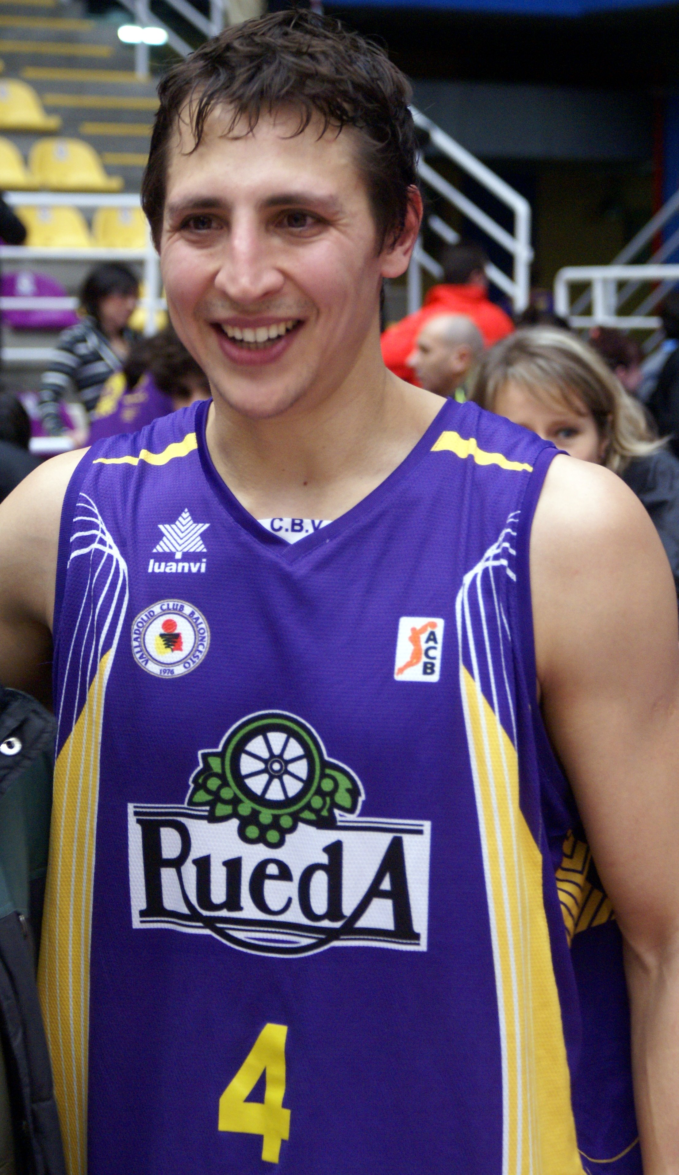 Federico Van Lacke, Argentine basketballer.